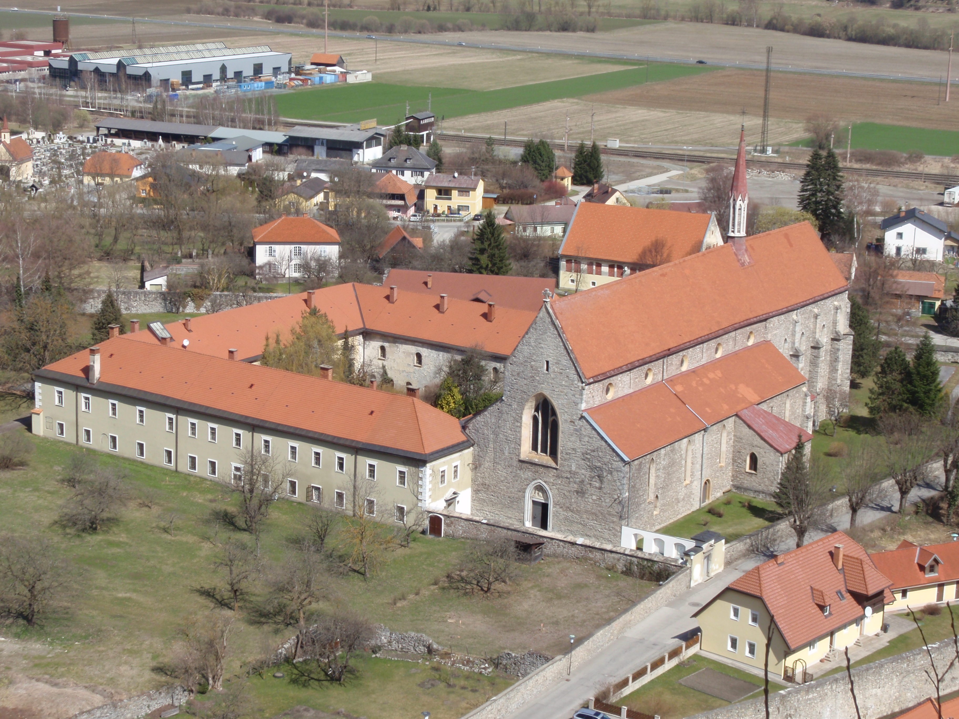 Dominikan church and monastery in Friesach, Carinthia, Austria